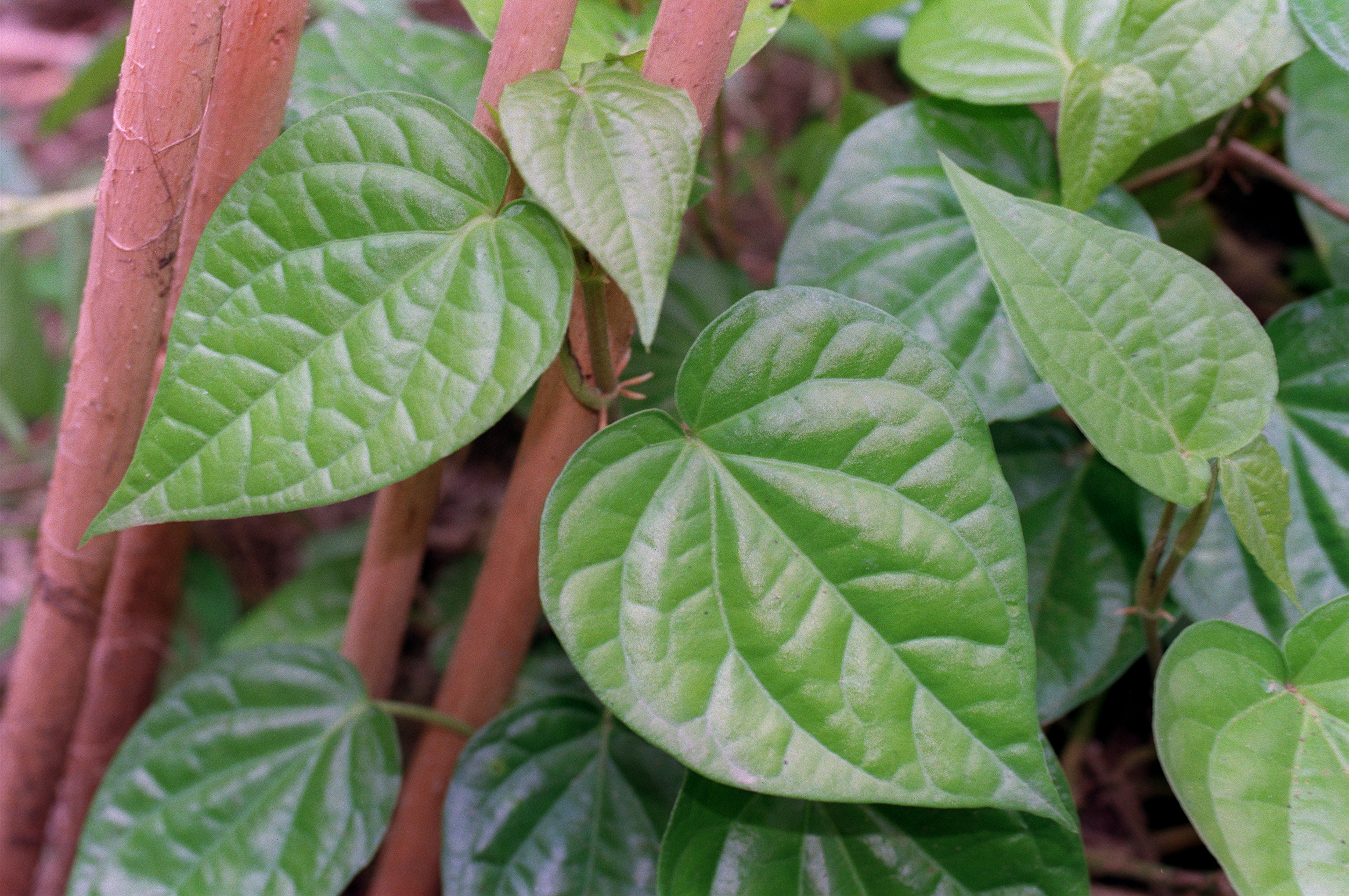 The Betel leaf is known as Paan in Assamese, Urdu, Hindi, Odia and Bengali. It is widely consumed at south Asia, like India, Pakistan, Bangladesh etc. This shot was taken at Dhulagarh, Howrah.